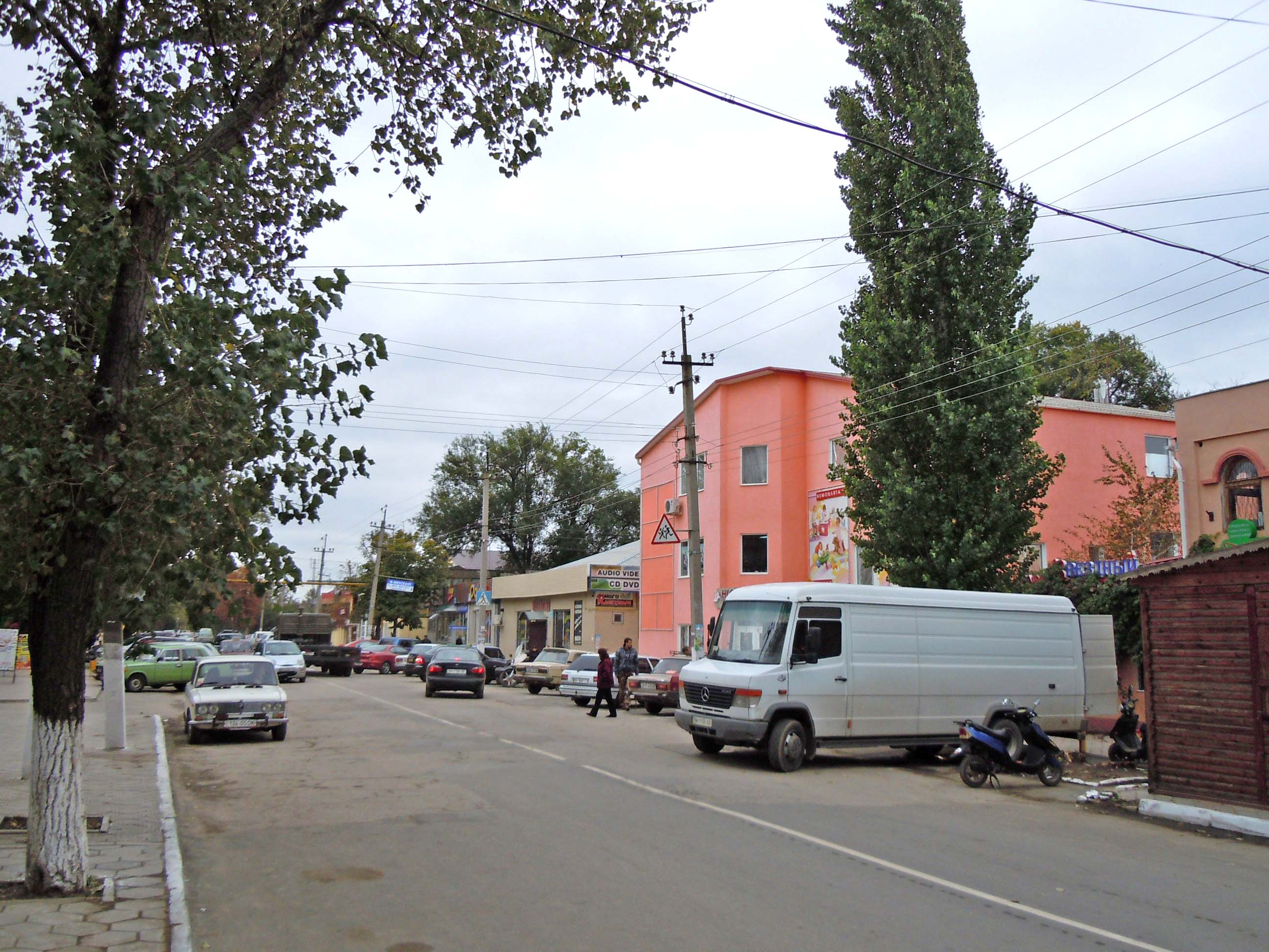 Down Town of Bilyayivka, Odessa Oblast, Ukraine